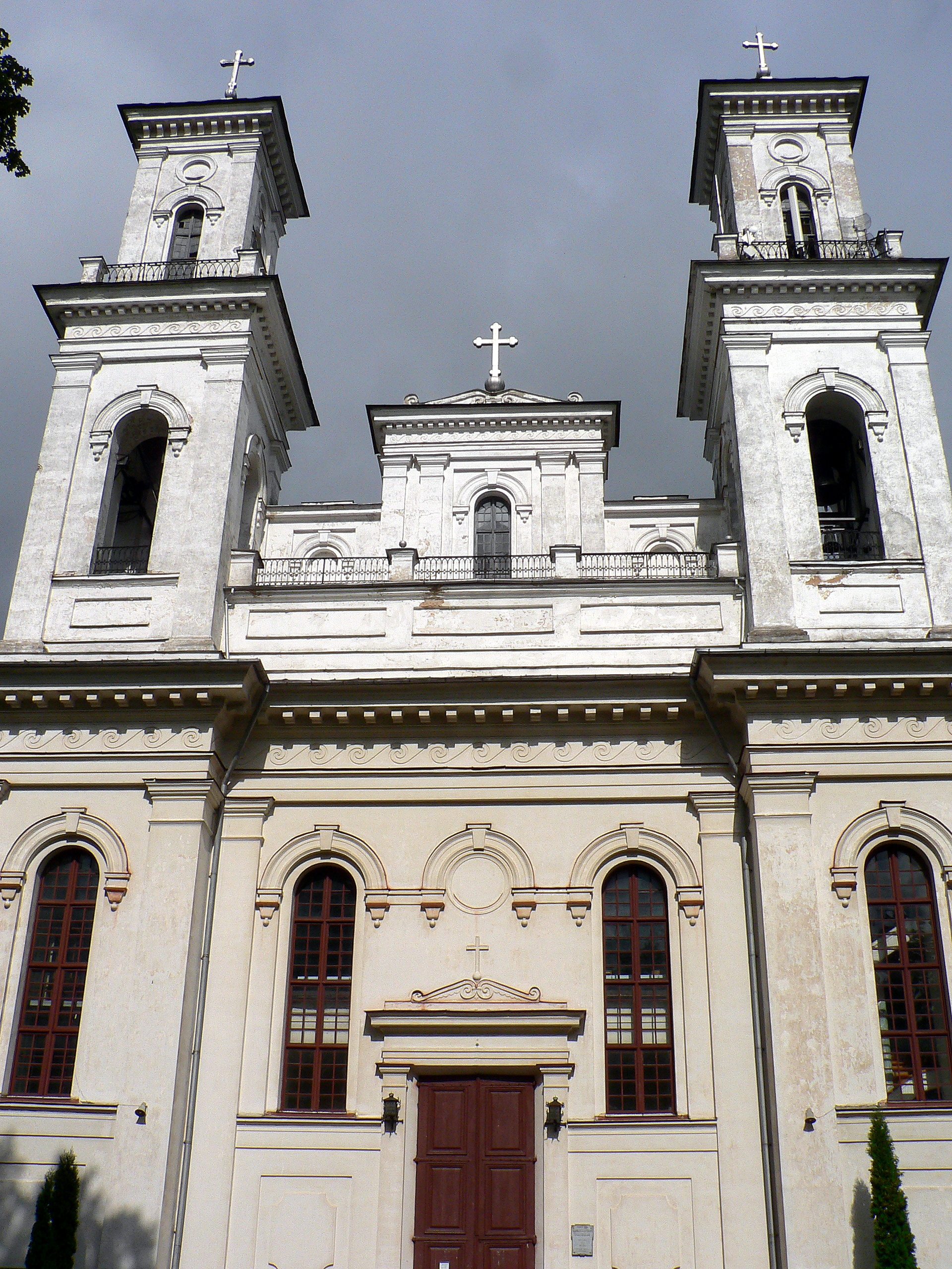 The facade of John the Baptist church in Biržai, Lithuania. Founded by Tyszkiewicz family in 19th century.